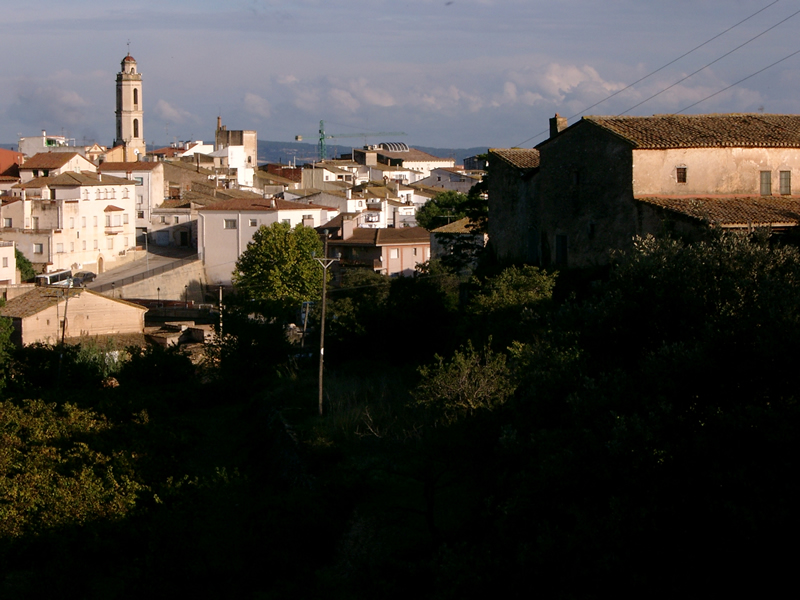 View of la Bisbal del Penedès in Baix Penedès